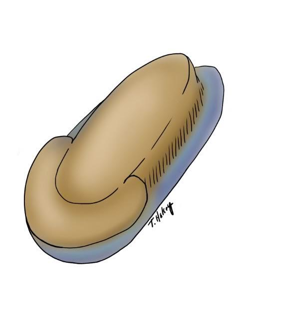 A reconstruction of Temnoxa molluscula. PaleoArt by Tory Halsey.